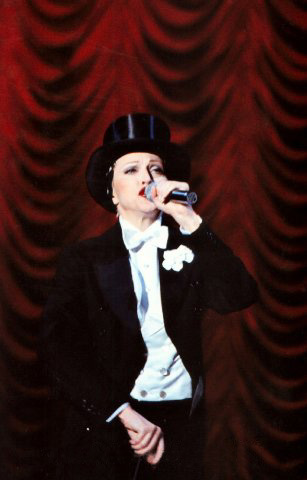 Photo taken during one of the concerts in 1993